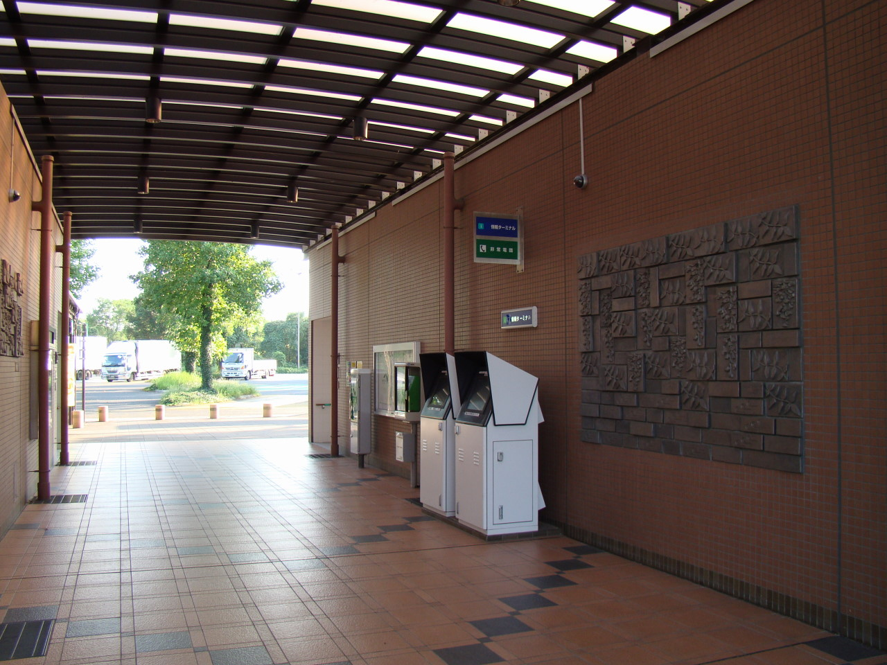 Joshin-etsu expressway Fujioka parking area Fujioka side Gunma Japan